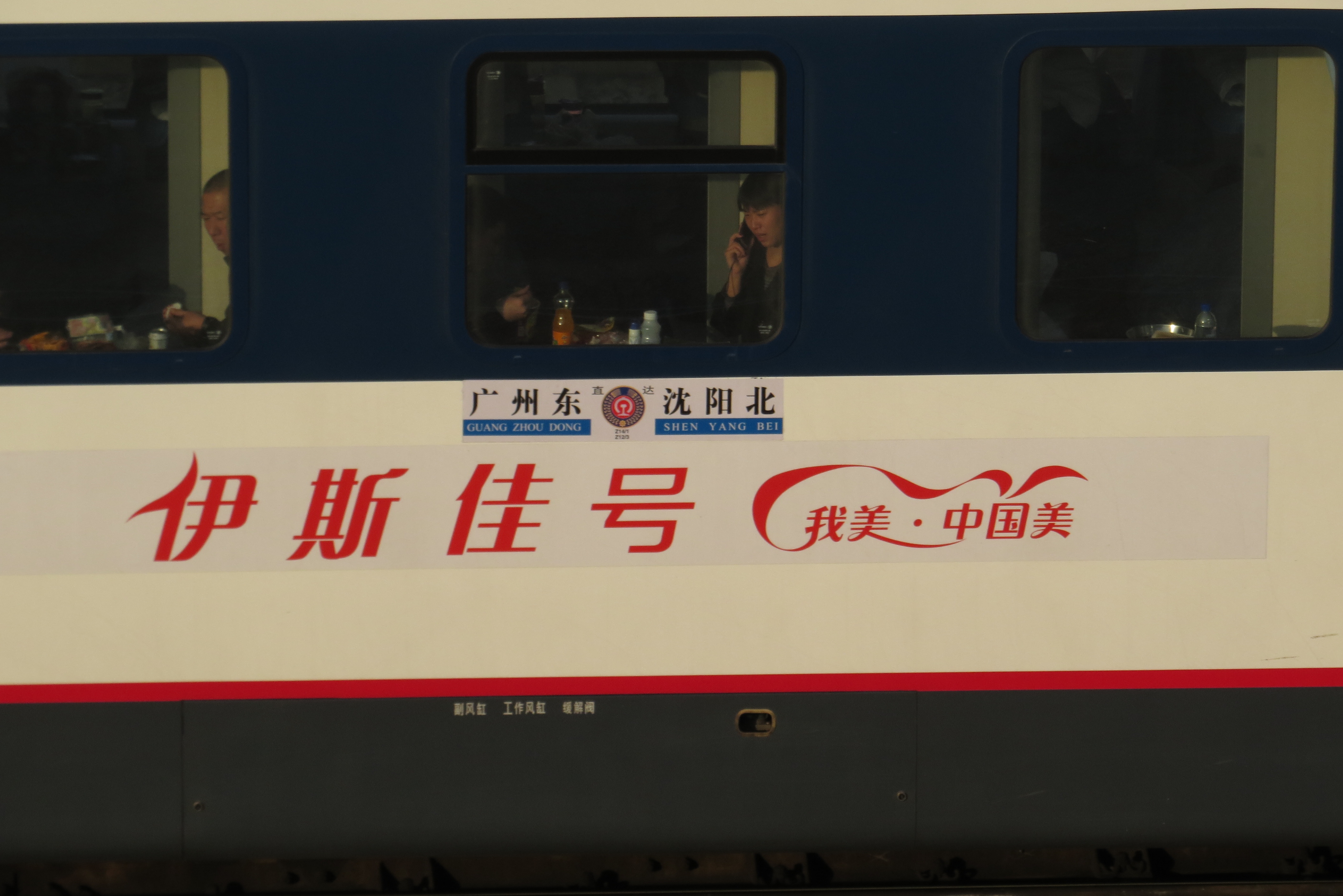 This train won the reputation of "Heroic Train" after it encountered a flood in Liaoning in 1959, during which the train saved approximately 350 disaster-struck people. After extended to Guangzhou, it caught the 2008 Southern Snowstorm and spent 143 hours to and from Guangzhou.